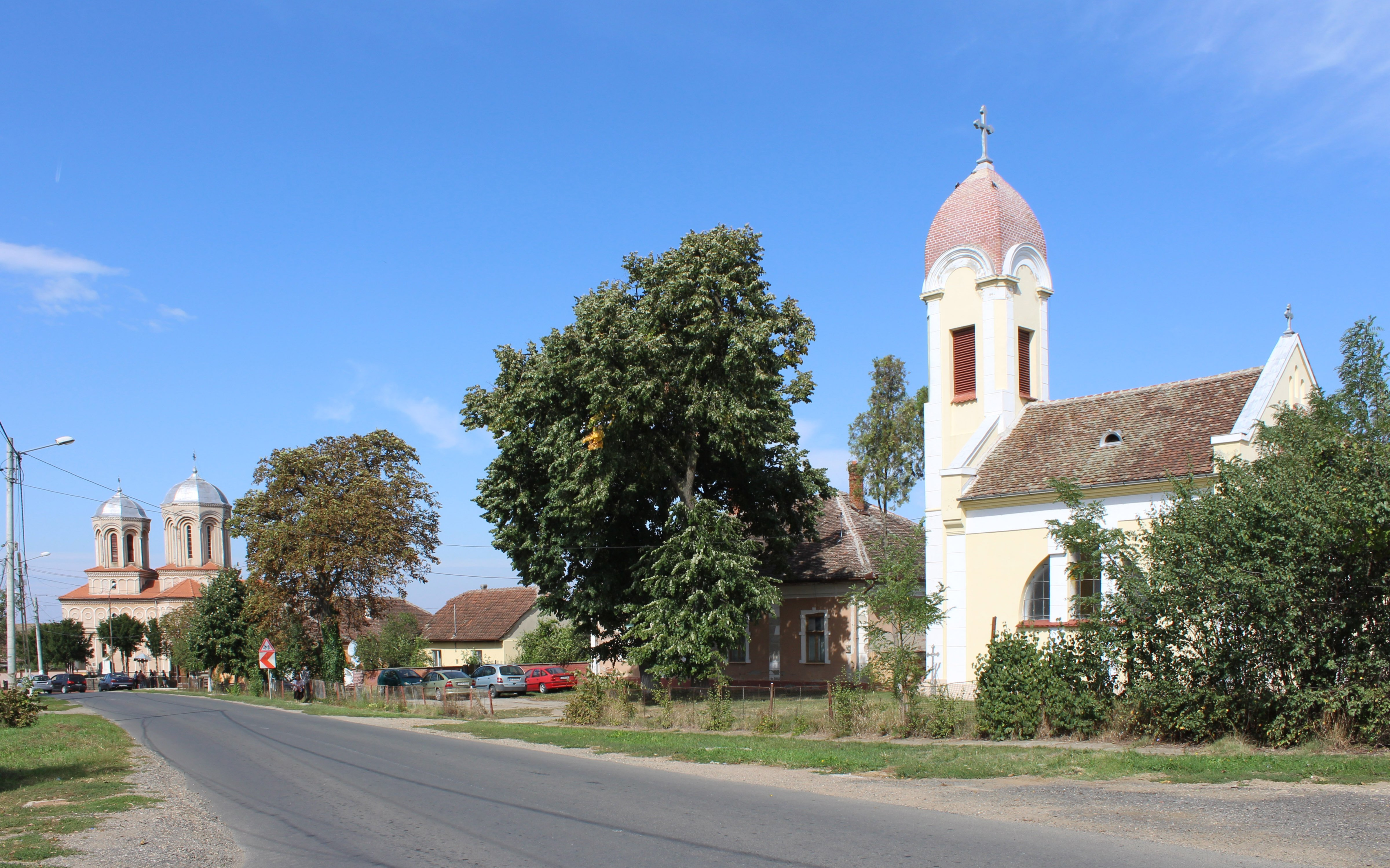 Stretch between the two churches on DN682, Zăbrani, Arad county, Romania, the 19th century